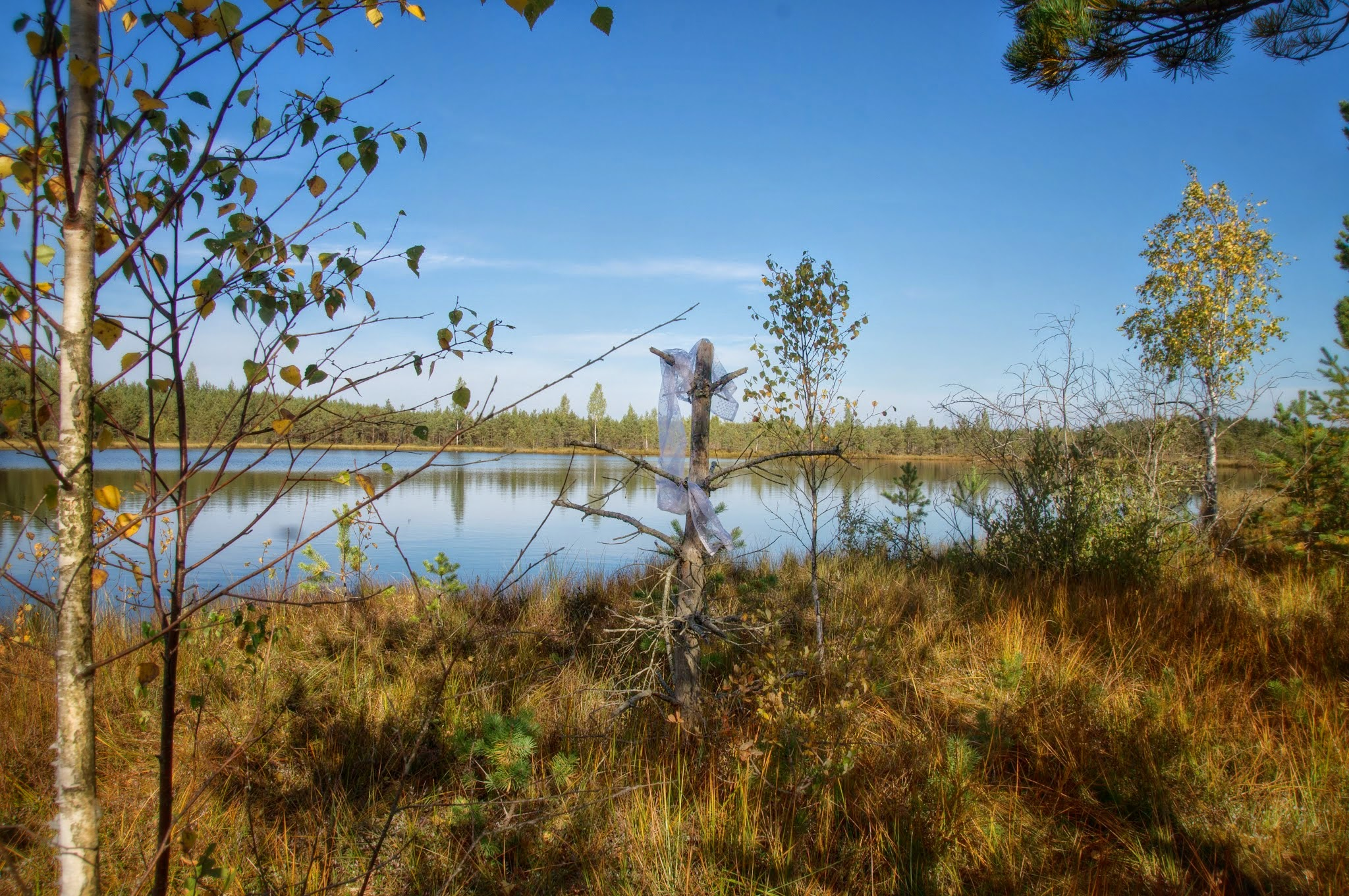 Garanskae lake 02